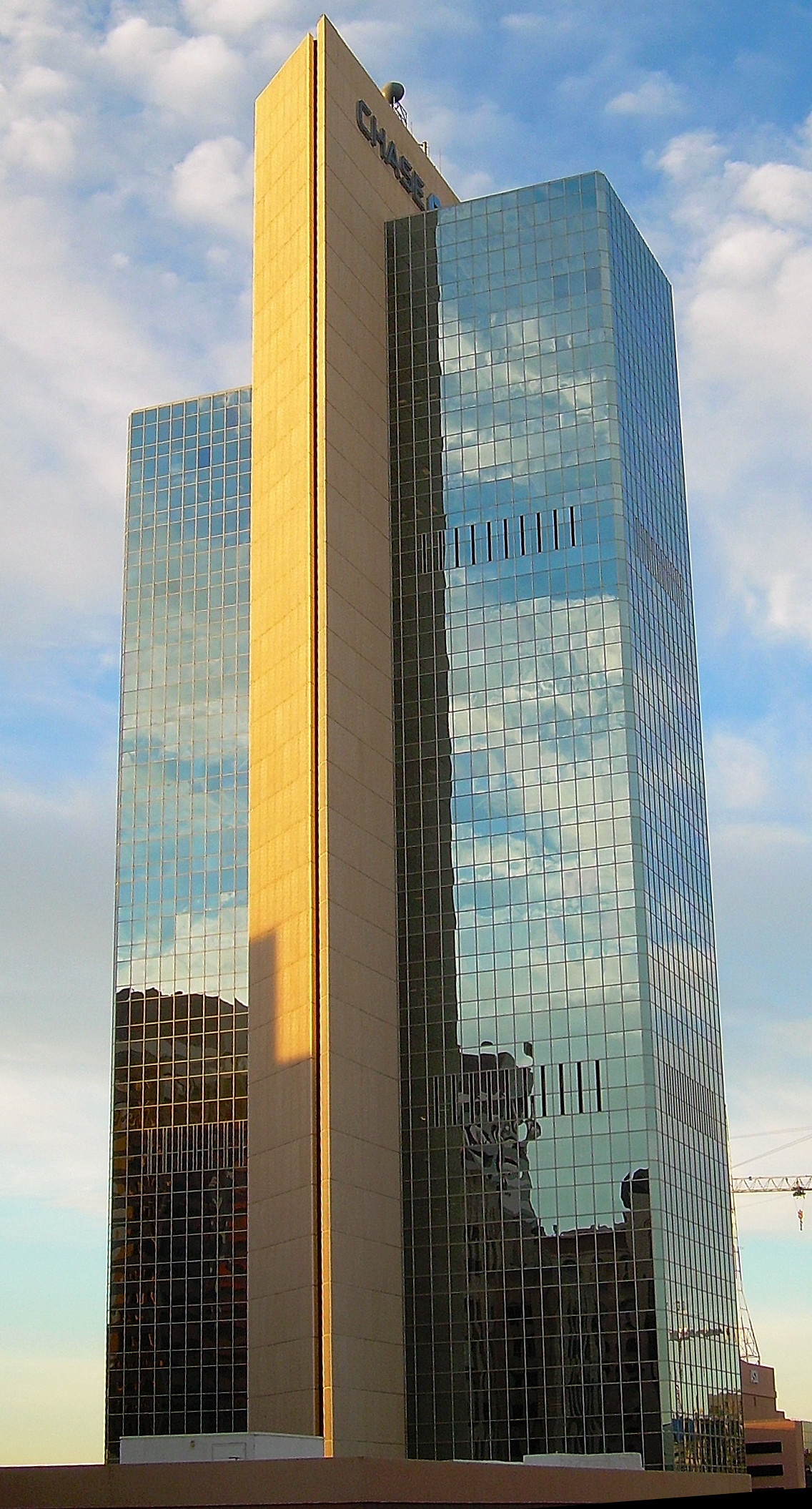 JCordova, self